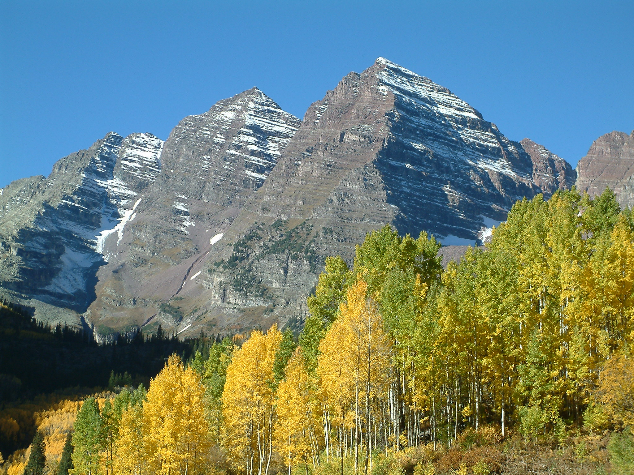 The Maroon Bells in the Elk Range near Aspen, Colorado, USA.